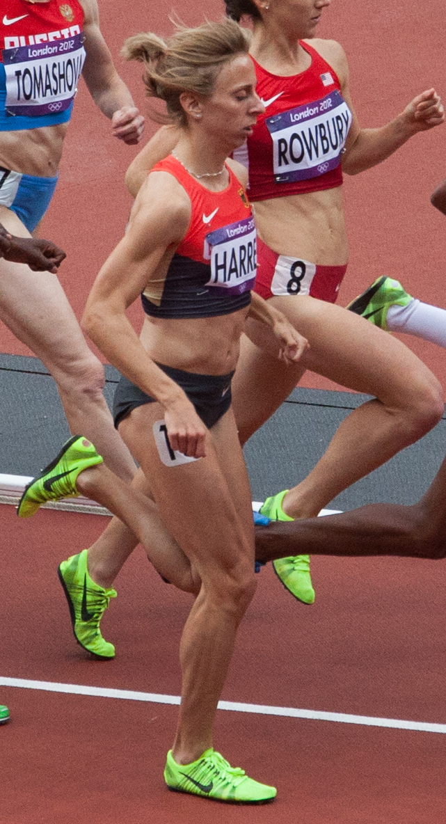 Olympic Stadium, 6 August 2012, London Olympic Games, Women's 1,500 metres heats, Corinna Harrer